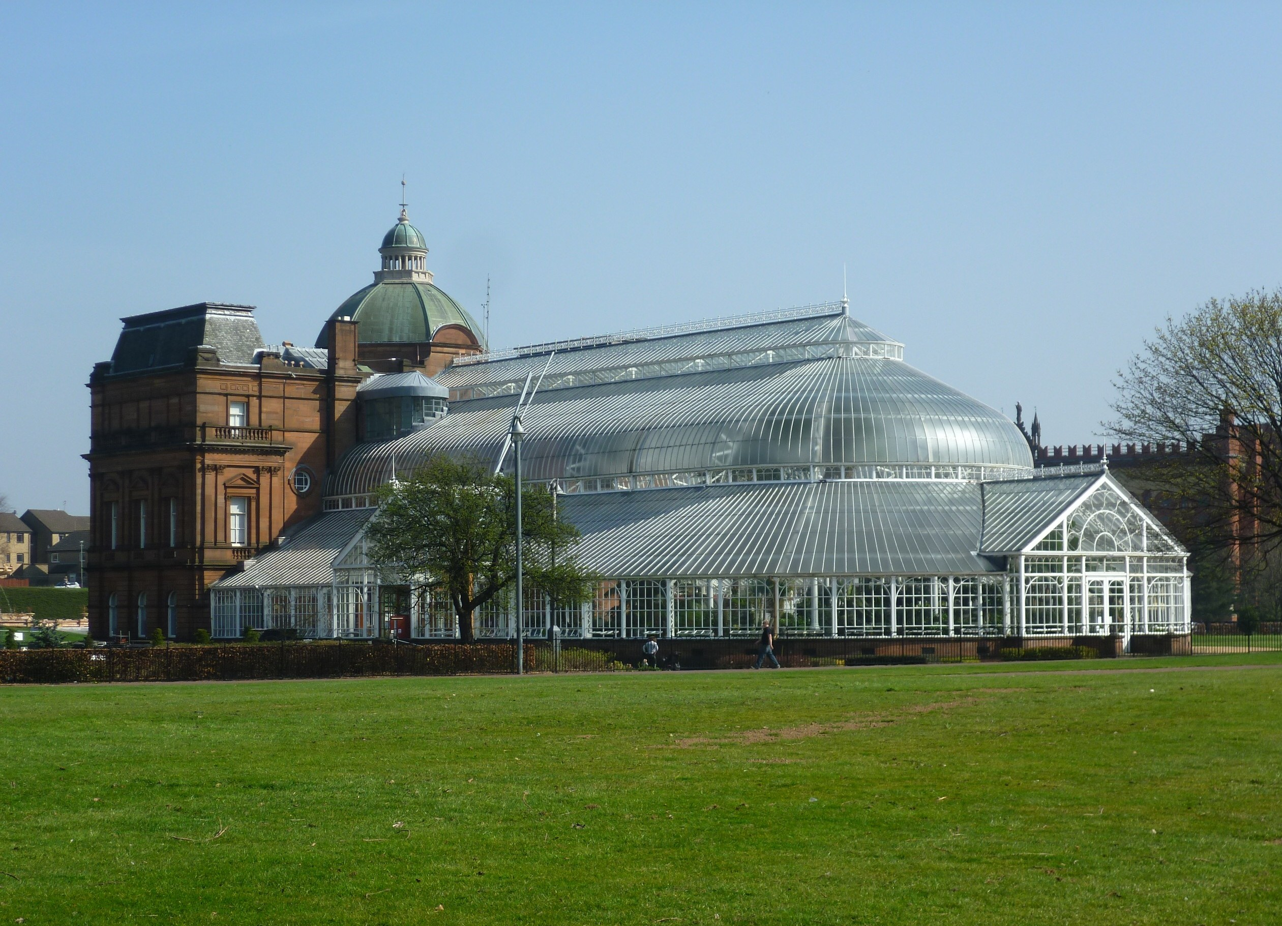 People's Palace and Winter Gardens, Glasgow Green